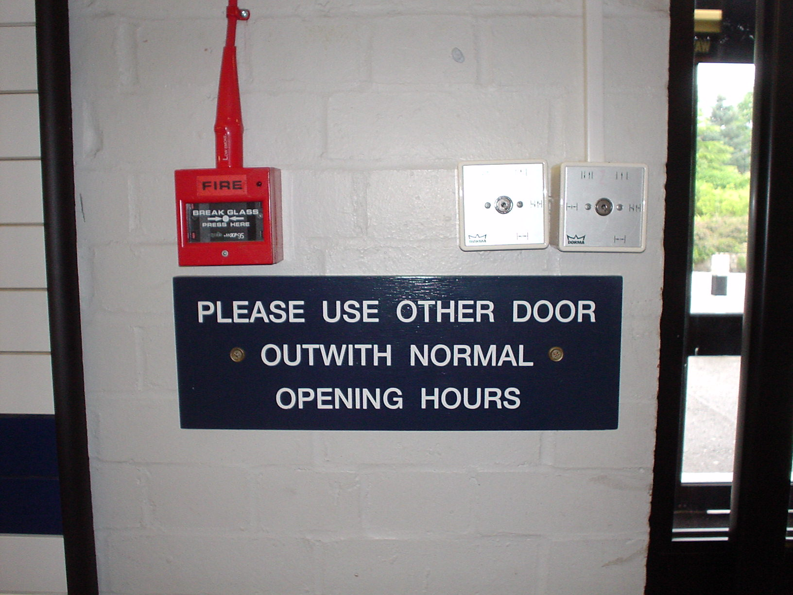 An example of Scottish English. Taken at the main entrance of James Clerk Maxwell Building, the University of Edinburgh.